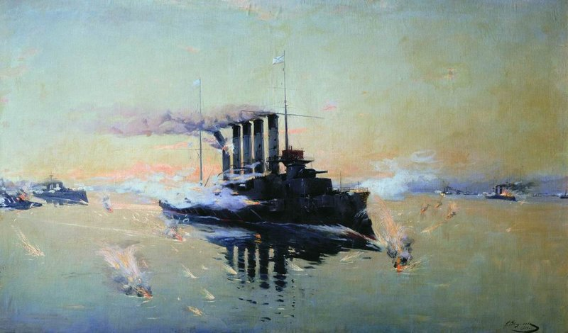 Painting by Constantin Westchiloff